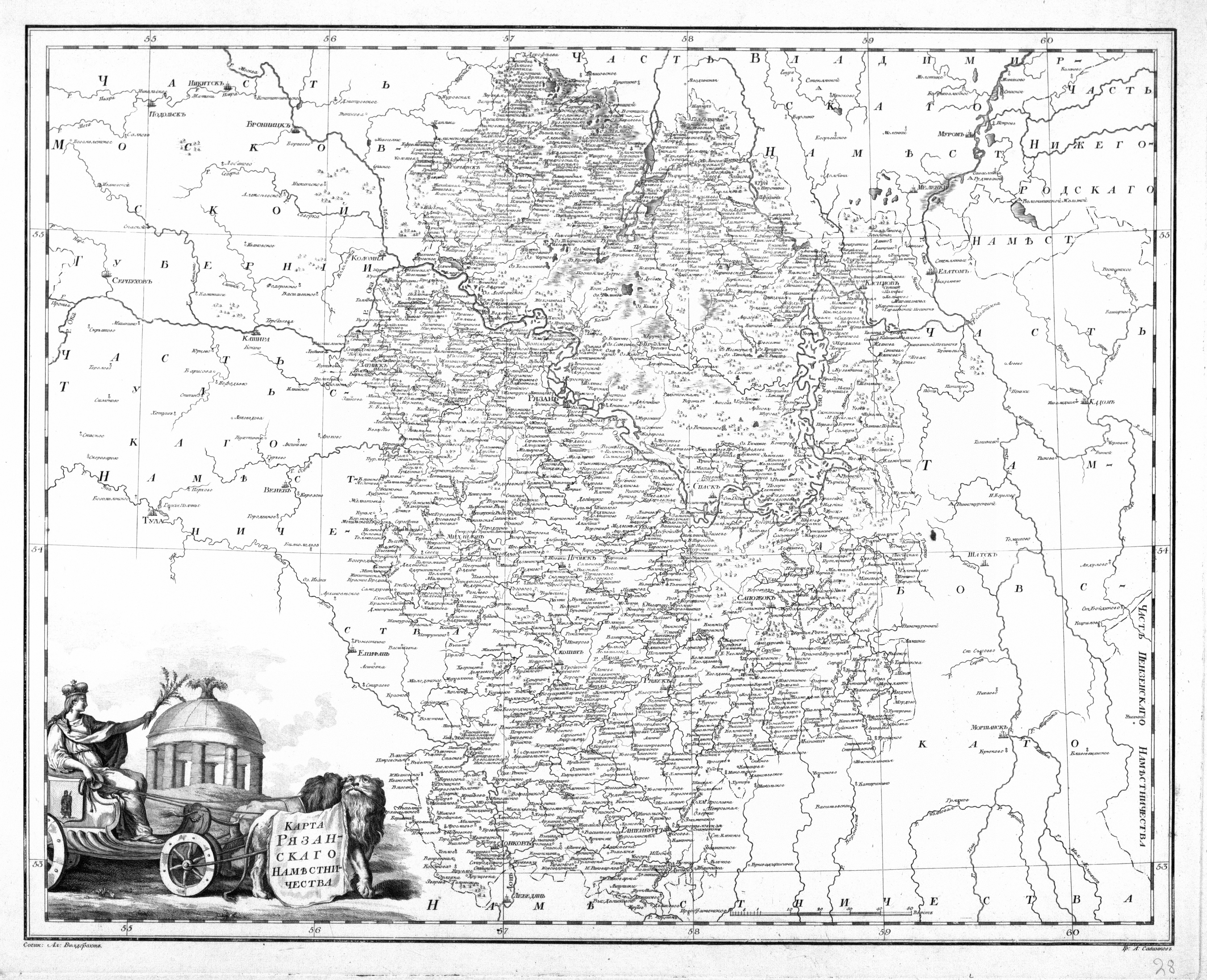 Map of Ryazan Namestnichestvo (sheet 28) from official Atlas of the Russian Empire (1792).